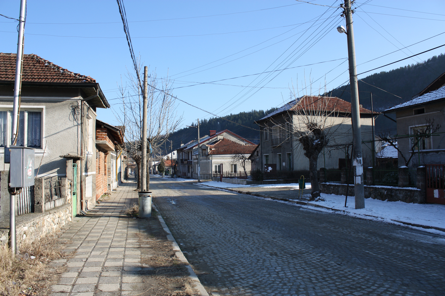 Momina Klisura main street